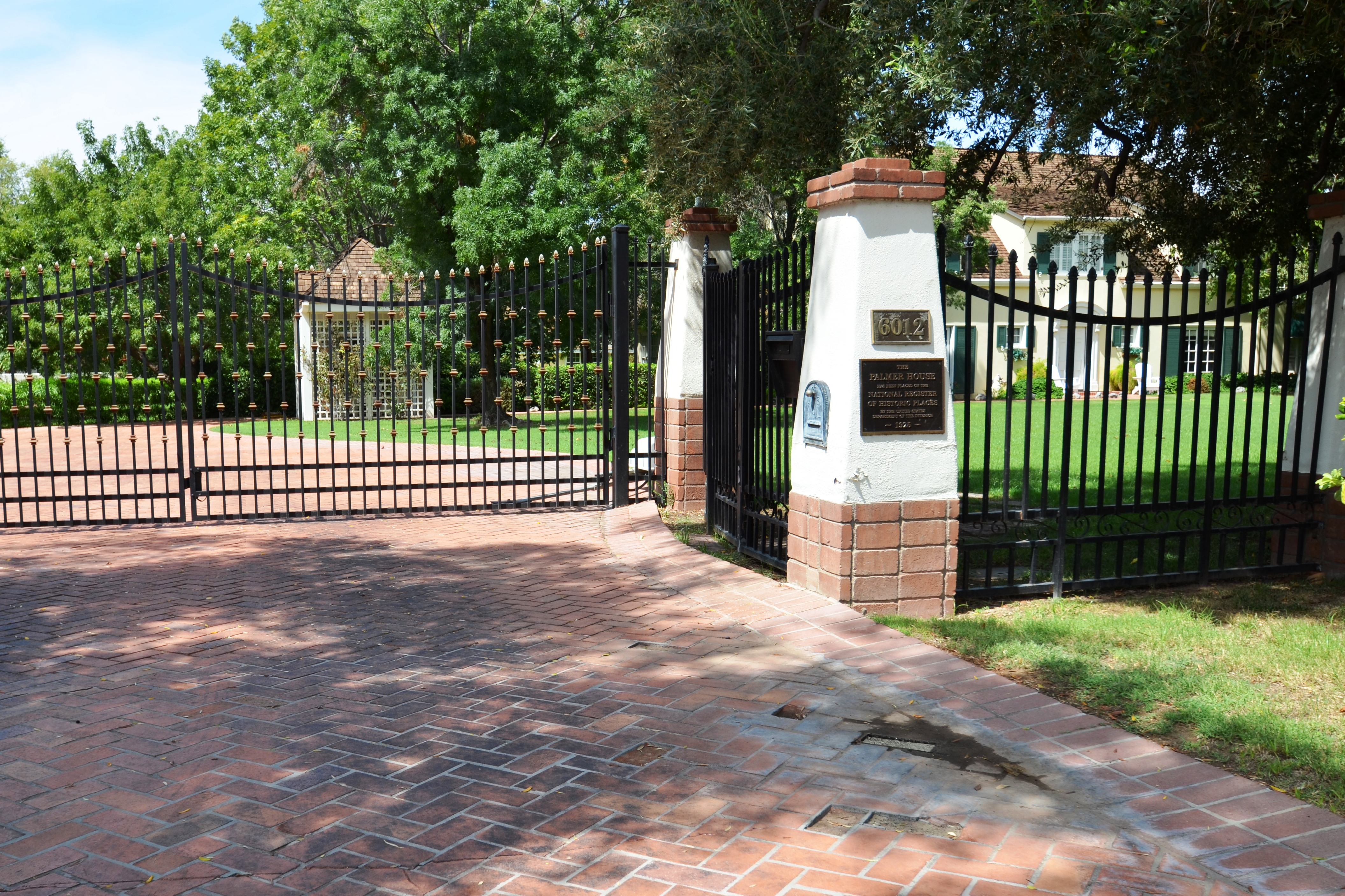 E. Payne Palmer House